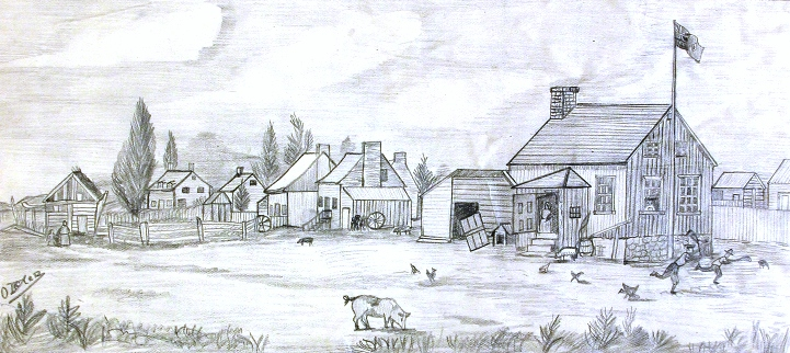 Drawing - sketch, Partial view of Oka village, the Iroquois village, 1872, O. Dieker, Graphite on paper, 20.4 x 33.1 cm